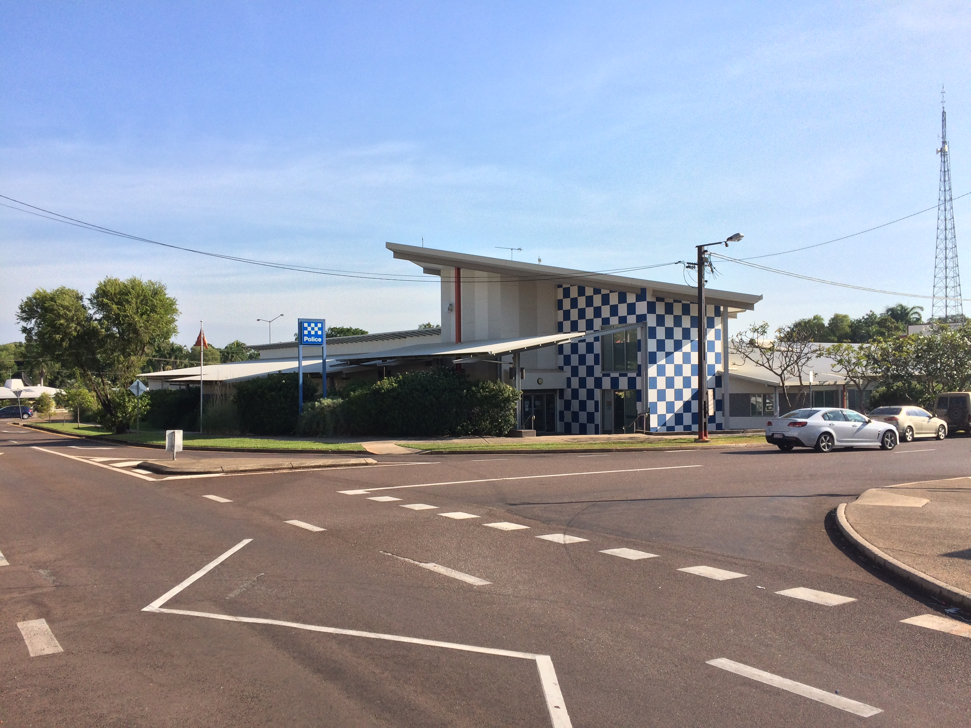 Casuarina Police Station viewed from Bradshaw Terrace.